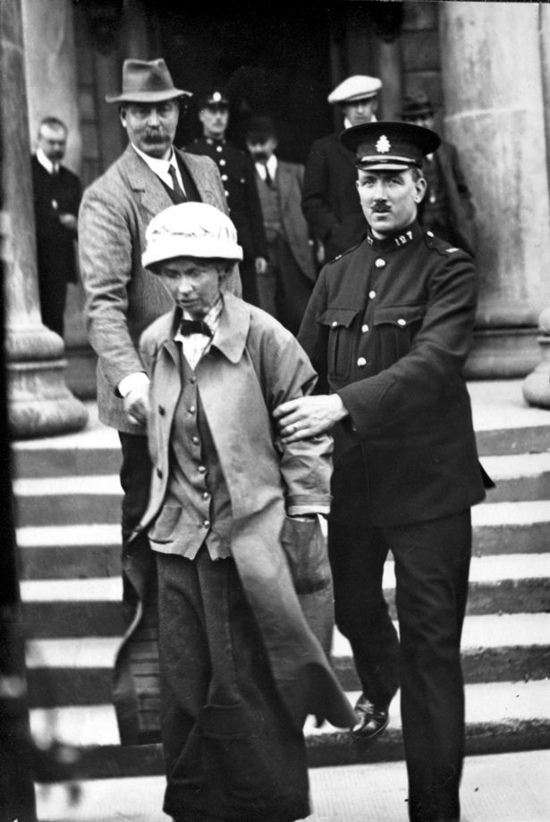 Photograph of the suffragette Fanny Parker, alias Janet Arthur, being escorted from Ayr Sheriff Court by a police officer. Miss Parker, a niece of Lord Kitchener, faced trial for attempting to burn Robert Burn's cottage in Alloway, 1914 (Crown Copyright, National Records of Scotland, HH16/43/58). Image Gallery Reference: AAA00178